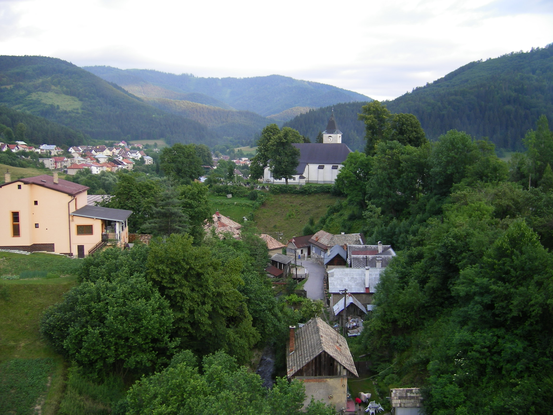 Brusno (okres Banská Bystrica) view from the road 66